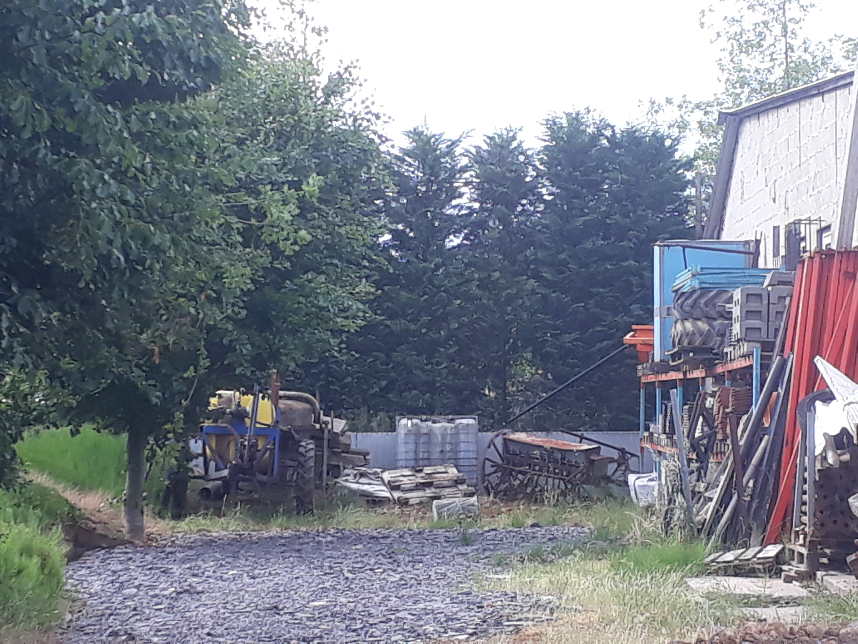 Chemin numéro 1 à Rocourt clôturé